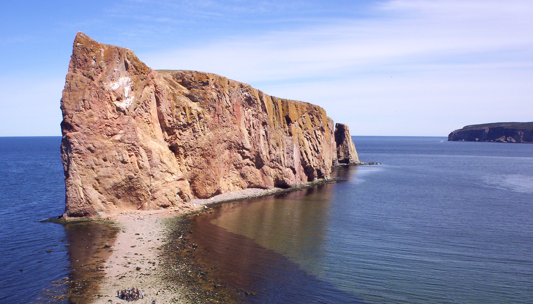 The Percé Rock and the tombolo seen from the cliff, Percé, Québec.